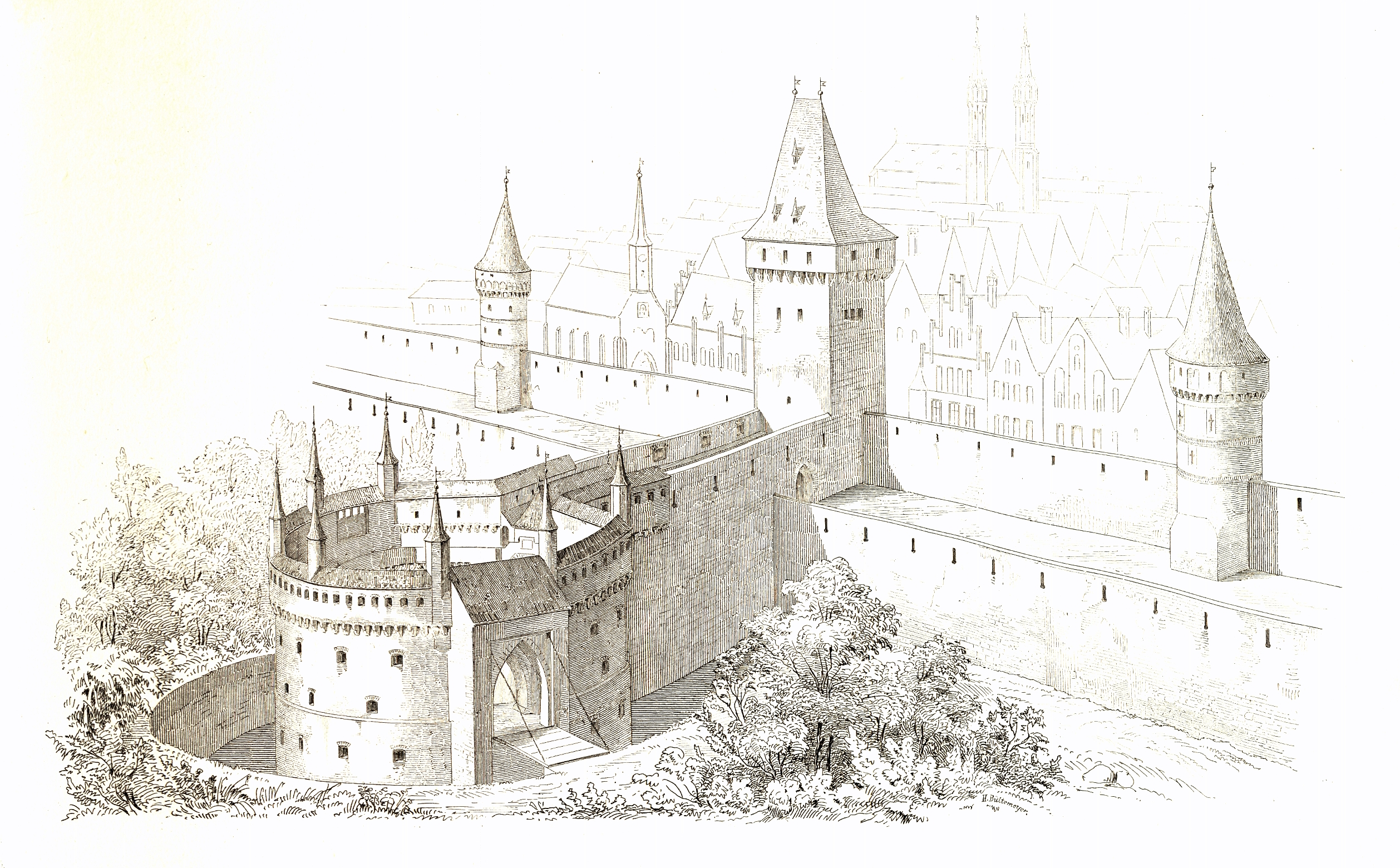 Bilder aus einem Artikel aus den Mittheilungen der kaiserl. königl. Central-Commission zur Erforschung und Erhaltung der Baudenkmale Band 2, 1857.(siehe PDF-Dokument) Scanprojekt Bundesdenkmalamt Österreich This scan or this PDF-file was created within the Austrian Wikipedia-project Denkmalpflege Österreich (German only) supported by Wikimedia Germany and Wikimedia Austria as part of the Wikipedia community-project to collect public domain documents from the library of the Heritage Monuments Board of Austria. This document describes or depicts an object which is located in Poland today. Texts are written in German language. Send requests for uncompressed scans to Hubertl. This work is in the public domain in the United States, and those countries with a copyright term of life of the author plus 100 years or less. This file has been identified as being free of known restrictions under copyright law, including all related and neighboring rights.